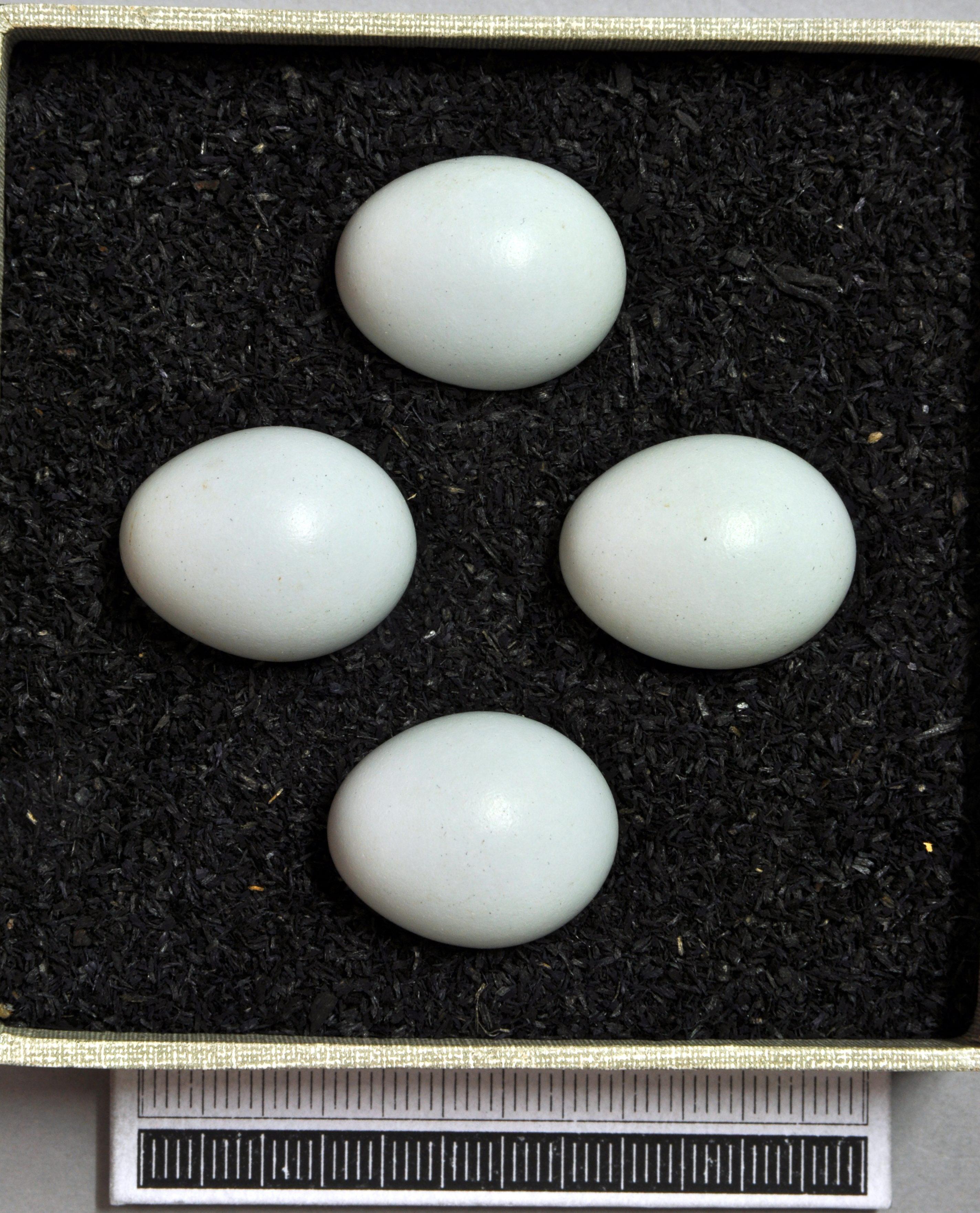 Common rock thrush Monticola saxatilis , egg, Coll. Museum Wiesbaden